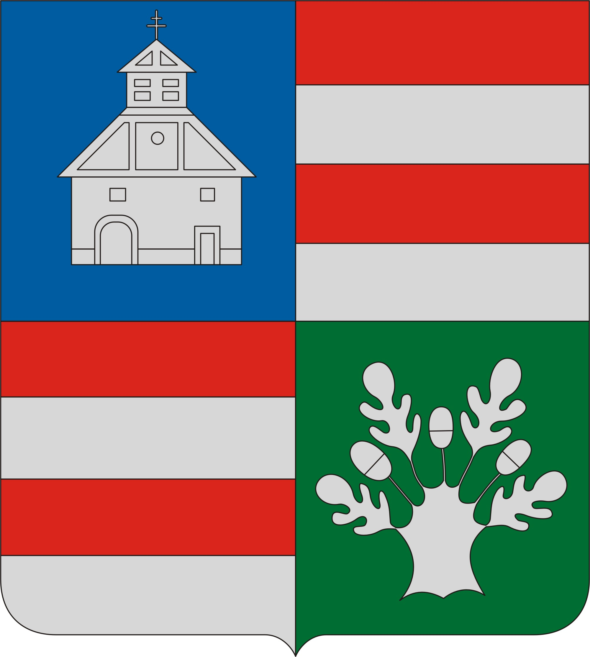 Coat of arms of Pusztazámor, Hungary